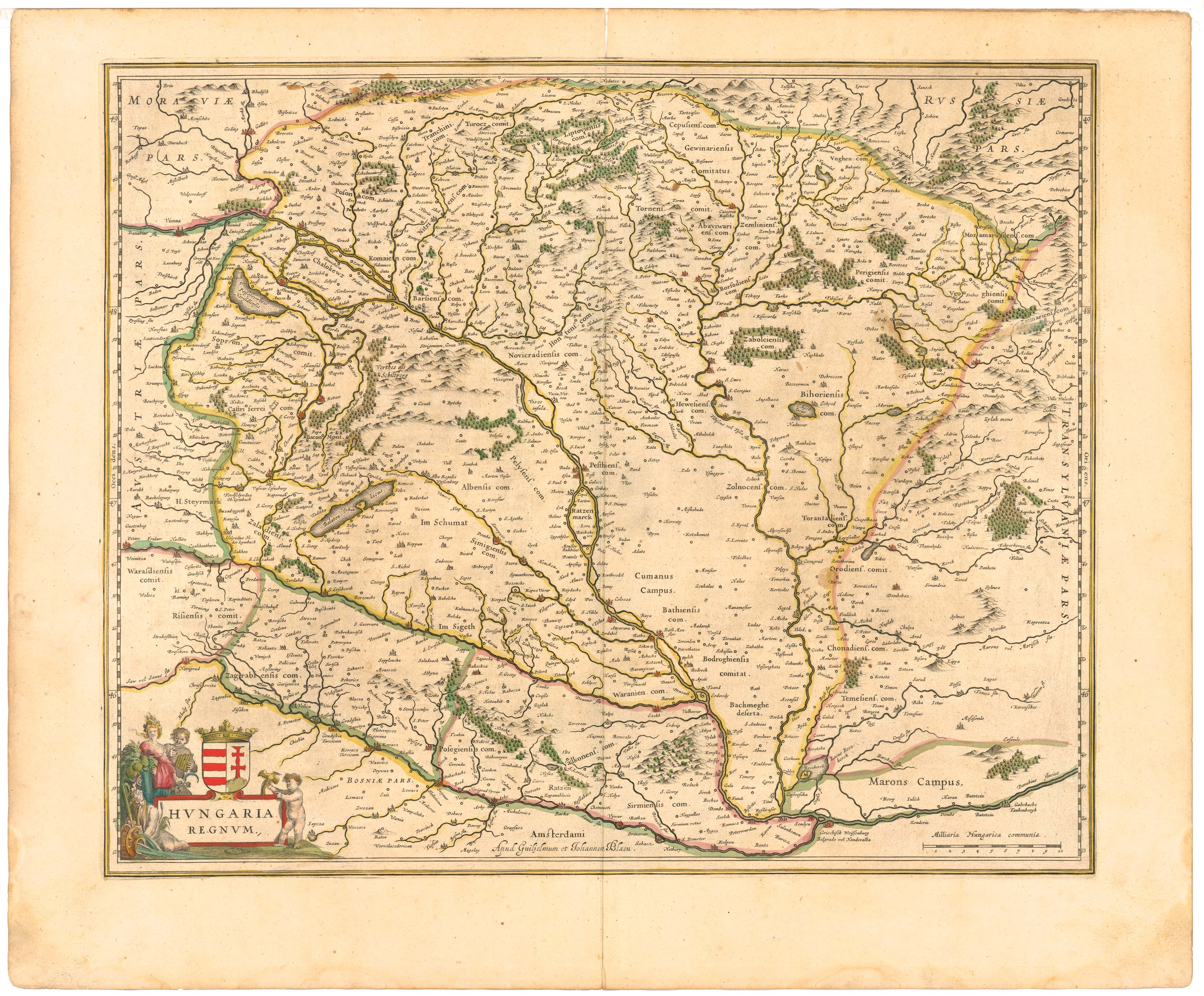 Hungaria Regnum (Kingdom of Hungary)from"Theatrum Orbis Terrarum, sive Atlas Novus in quo Tabulæ et Descriptiones Omnium Regionum, Editæ a Guiljel et Ioanne Blaeu"(Theater of the World, or a New Atlas of Maps and Representations of All Regions, Edited by Willem and Joan Blaeu), 1645.